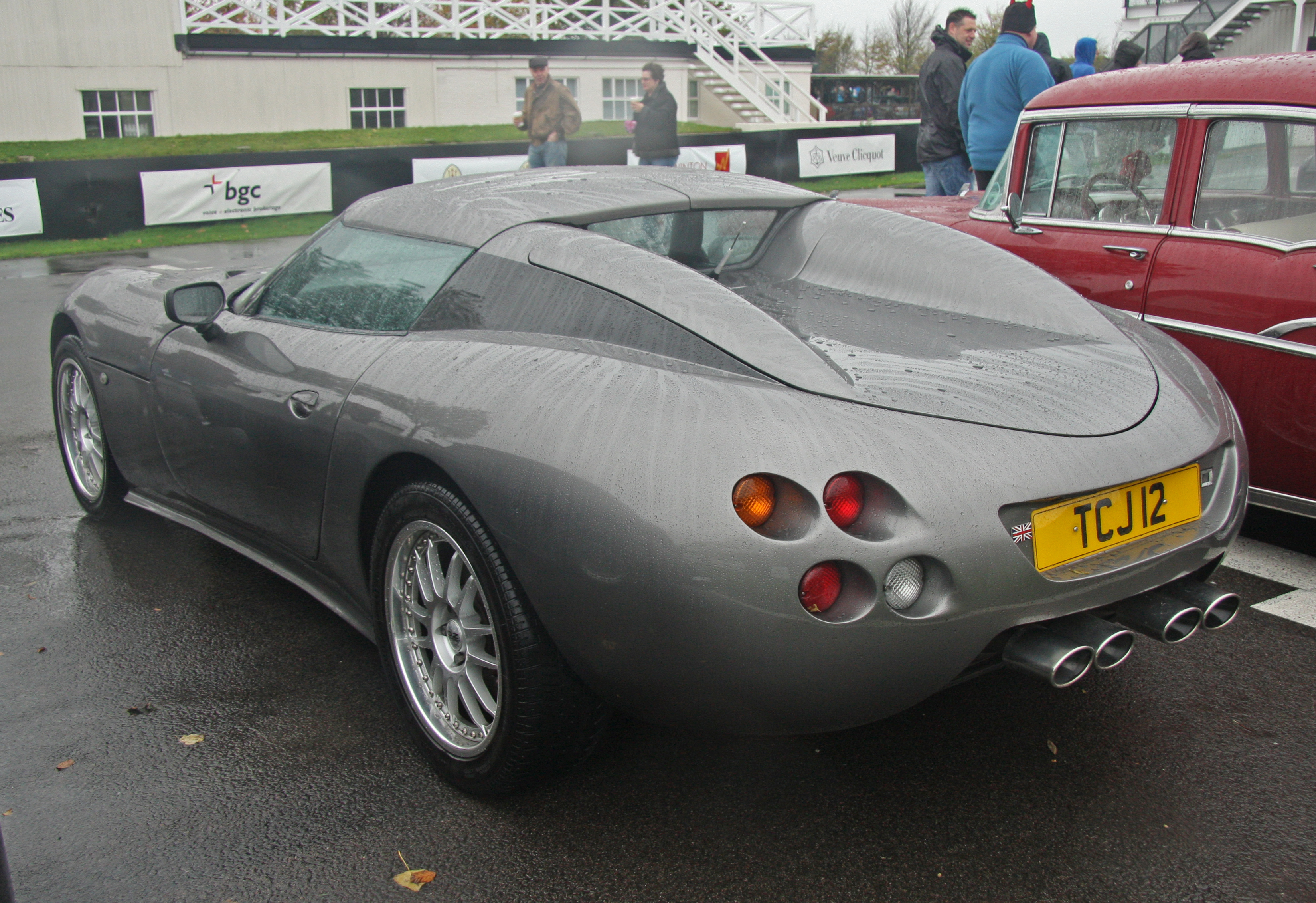 Ronart Lightning